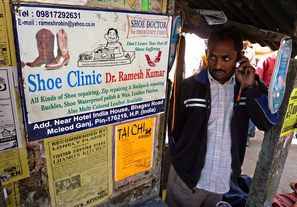 I took this photo on a trip to India in 2010